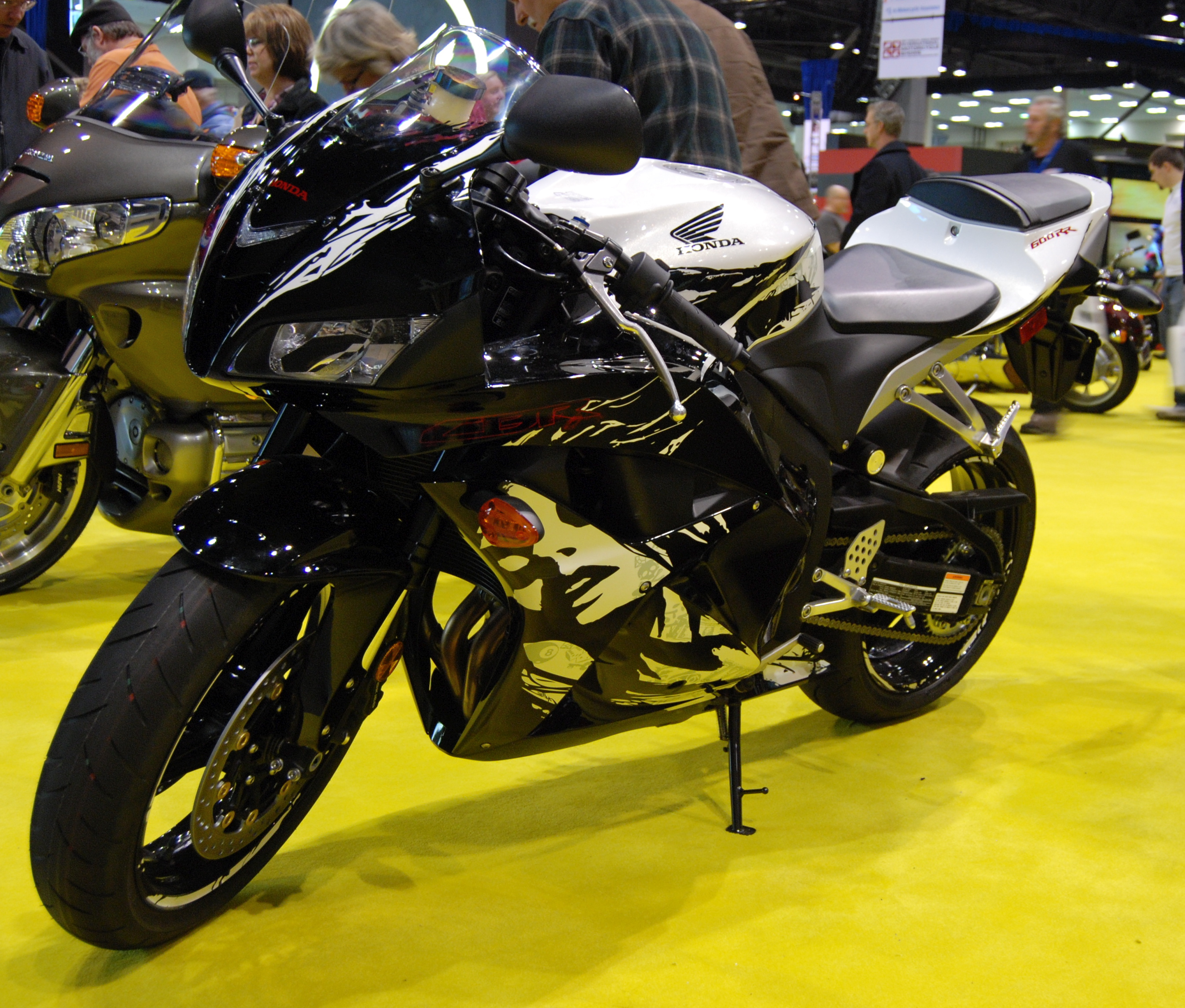 2010 Honda CBR600RR at the 2009 Seattle International Motorcycle Show